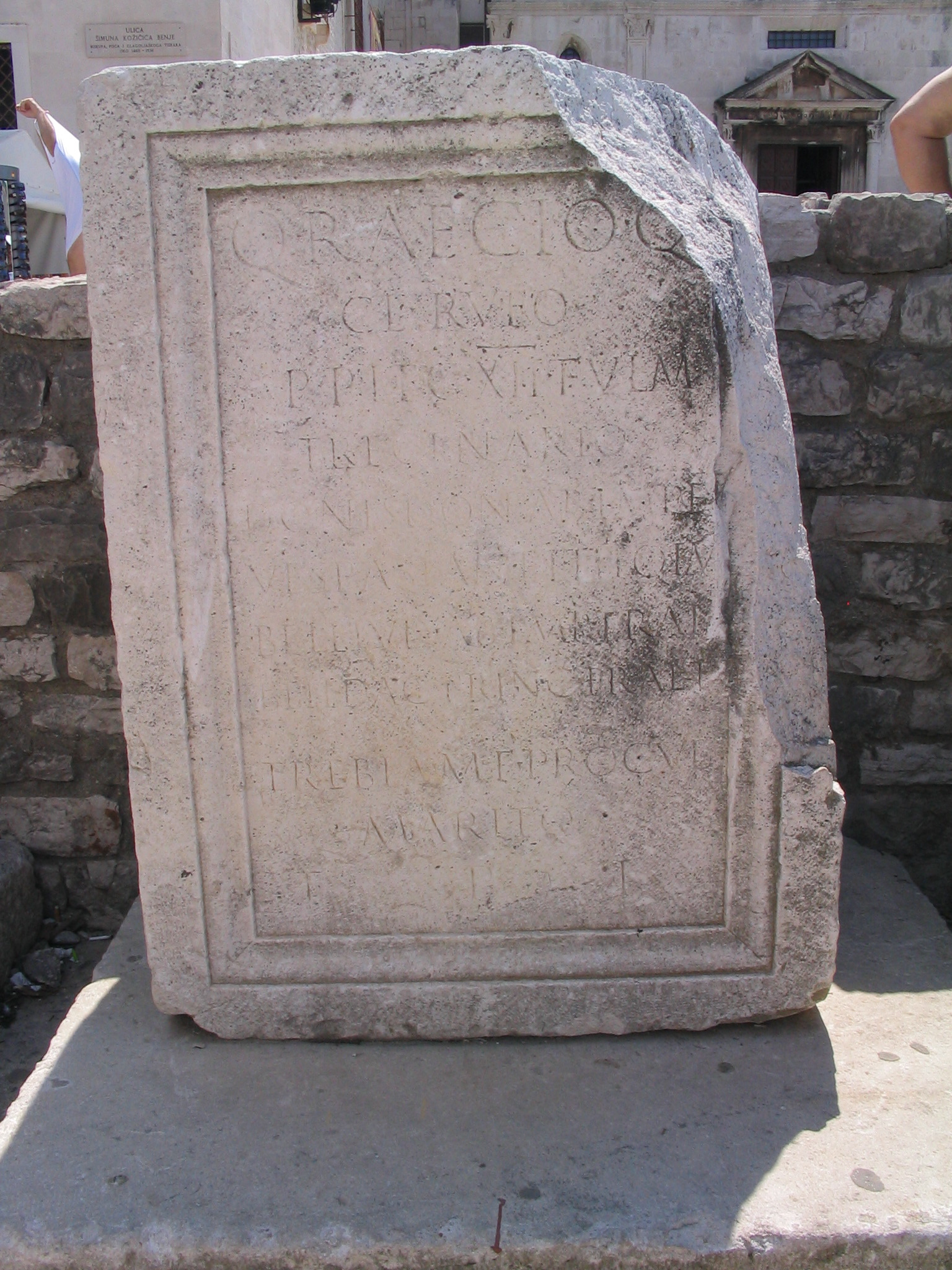 Ancient roman inscription from the forum of Iader or Iadera (present-day Zadar).